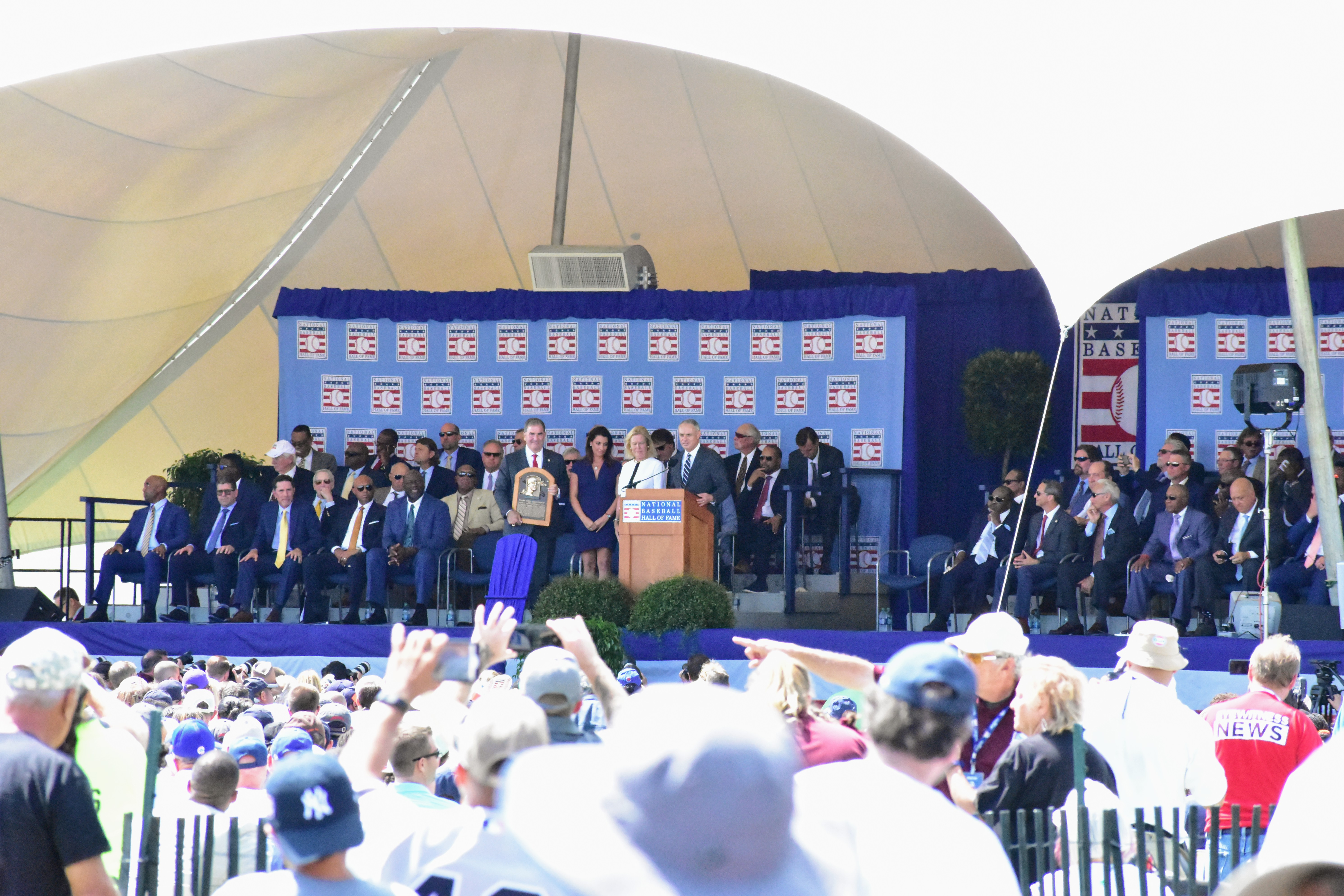 Brandy Halladay, widow of former MLB player Roy Halladay, is presented with her late husband's plaque during the induction ceremony to the Baseball Hall of Fame on July 21, 2019